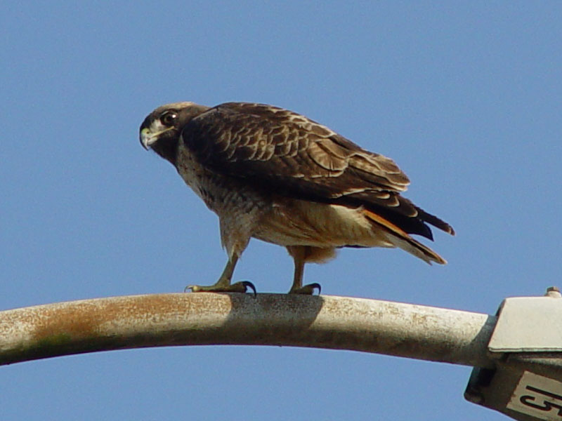 Description Buteo jamaicensis, Red-tailed Hawk. Date December 05, 2004 Location San Francisco, California Photographer Franco Folini